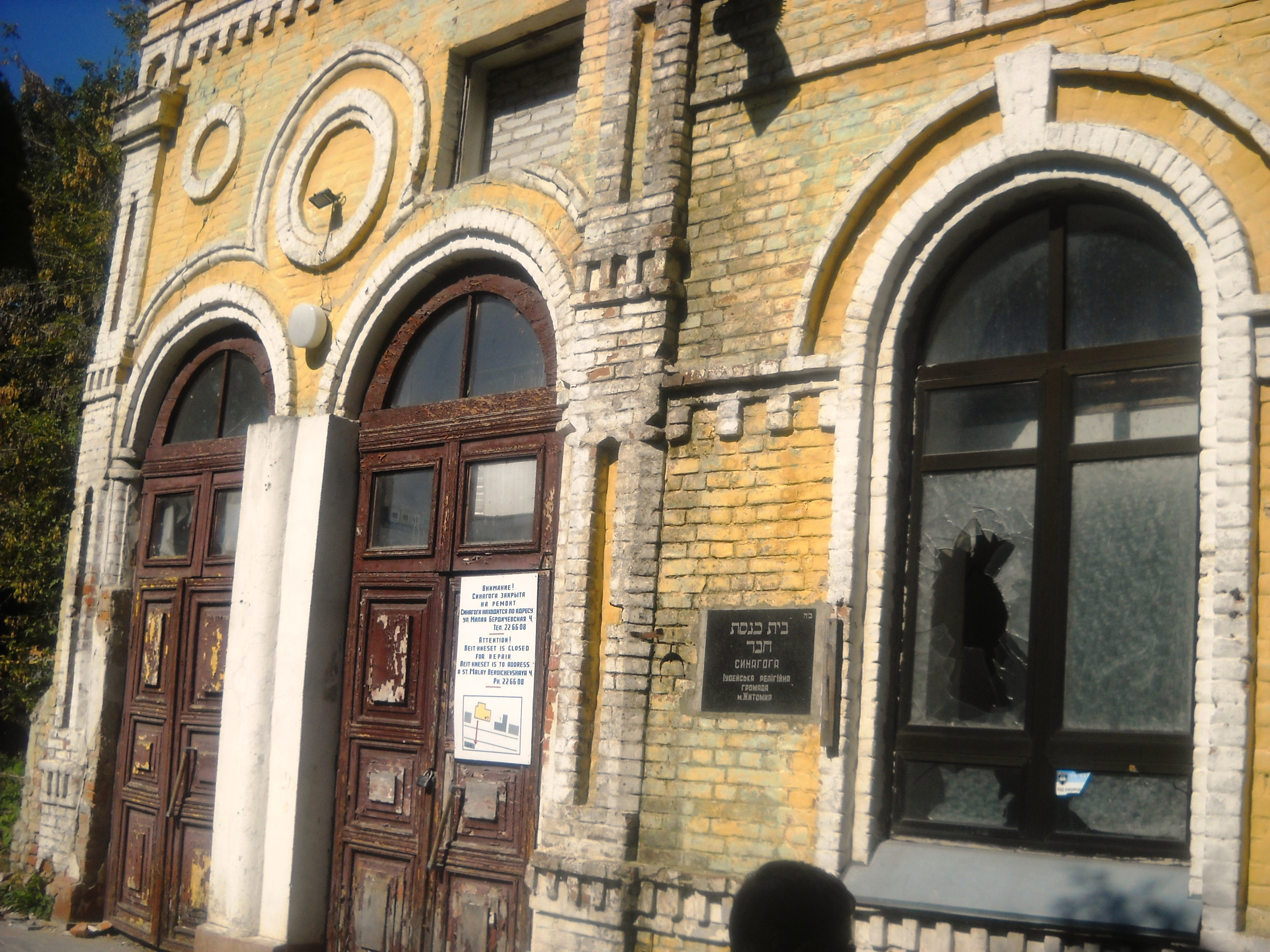 old synagogue in zhytomyr